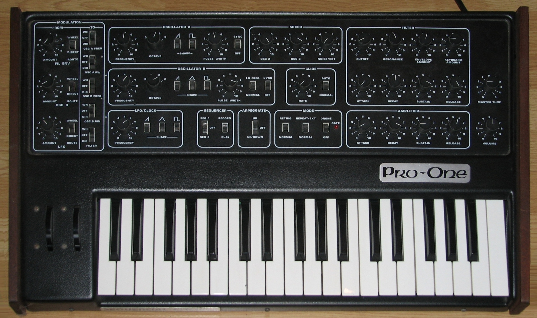 Prophet Pro-One